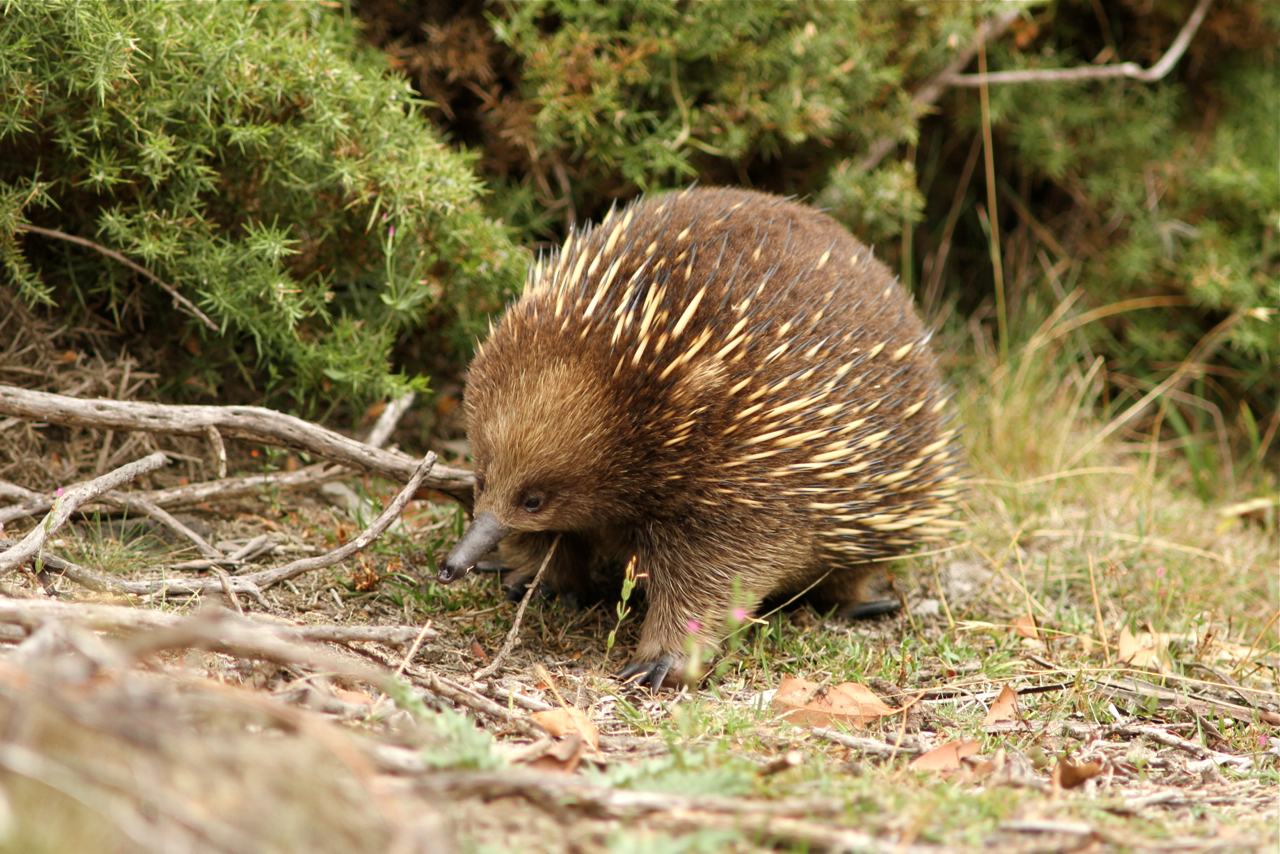 Kate Reed Recreation Area, Launceston, Tasmania.